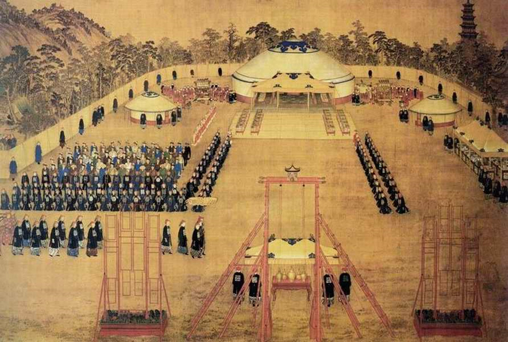 A banquet given by Qianlong Emperor in the Wanshuyuan Garden of Chengde Mountain Resort